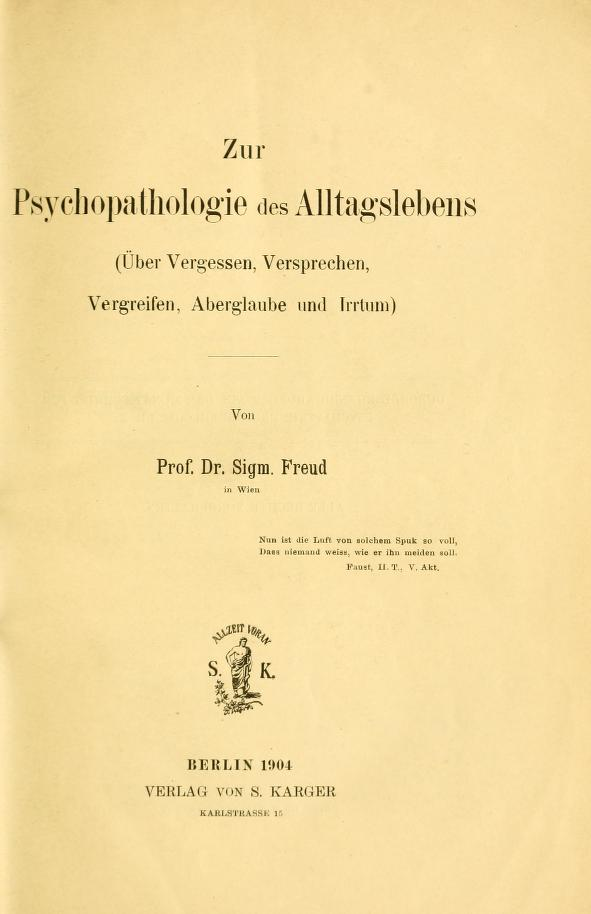 Title page of Freud, Zur Psychopathologie, 1904 (first edition in book form)